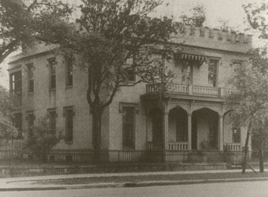 Murray Forbes Smith house at 201 Government Street in Mobile, Alabama. Childhood home of Alva Erskine Smith Vanderbilt. The house was built in 1852 and demolished in 1930. The site is now under the northeast portion of Mobile Government Plaza.